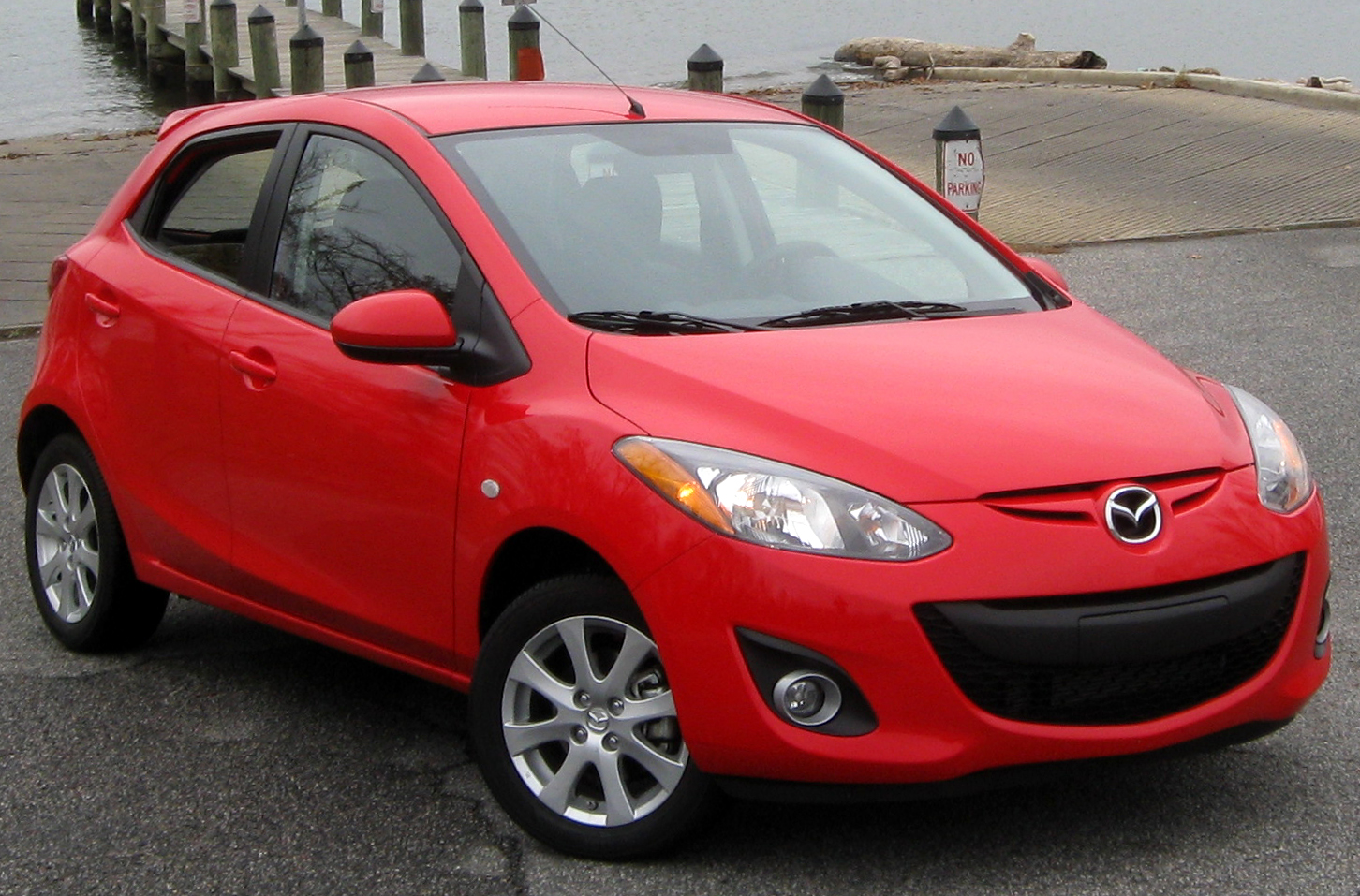 2011 Mazda2 photographed in Marshall Hall, Maryland, USA.